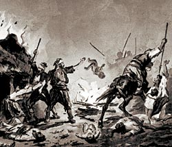 Turkish basibozuk in Bulgaria 1877